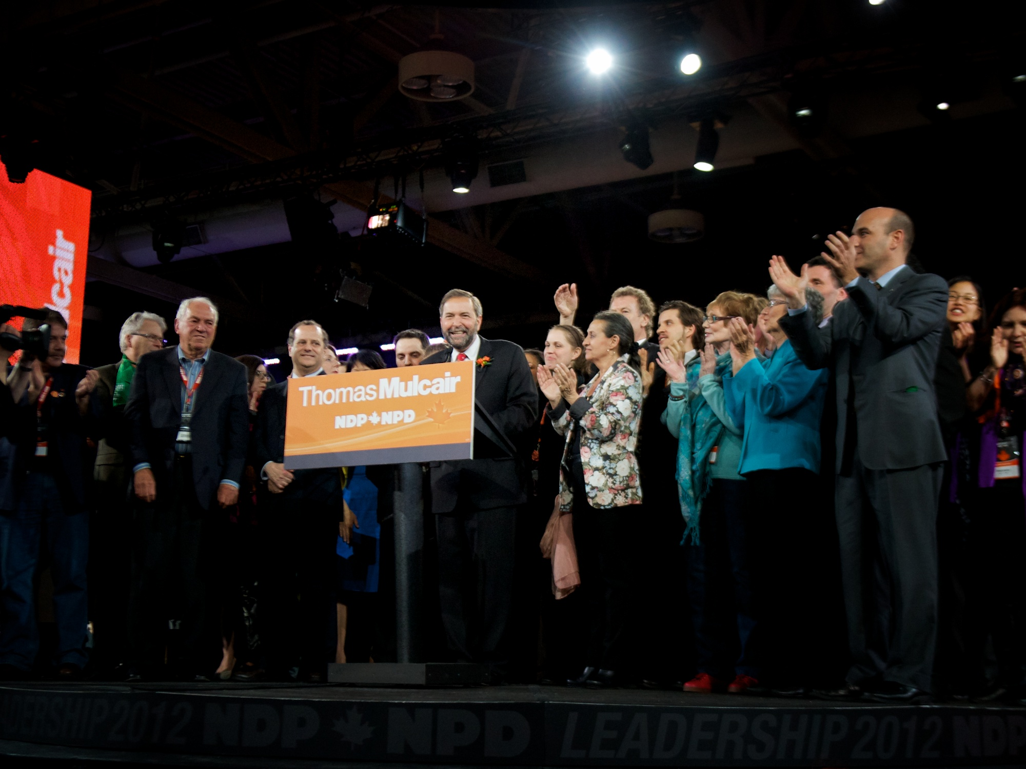 Thomas Mulcair, newly elected leader of the New Democratic Party of Canada, gives his acceptance speech alongside the other candidates, former party leaders, and supporters at the parties Leadership Convention in Toronto on March 24, 2012.